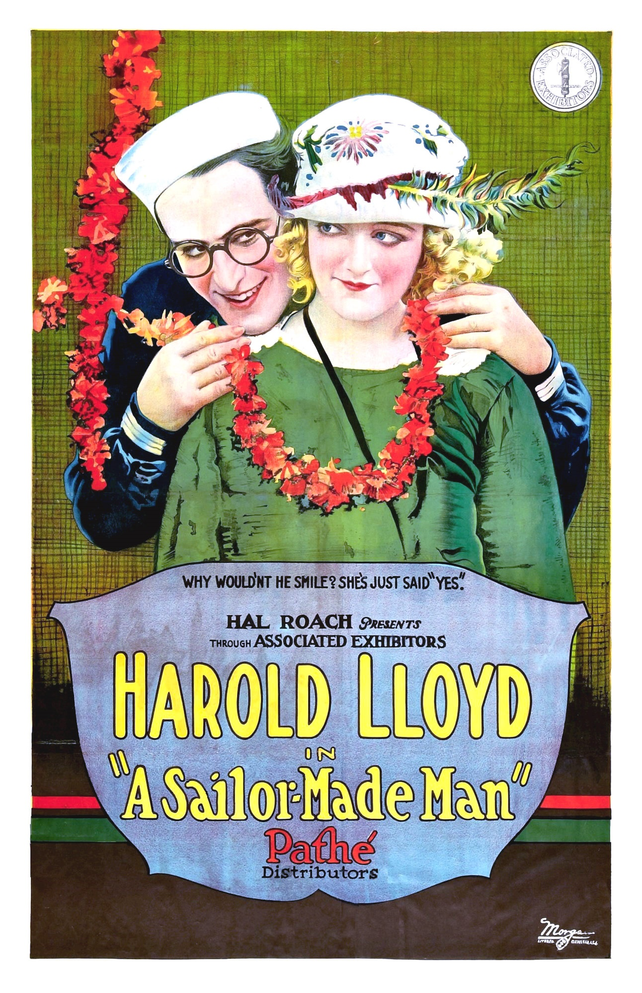 A Sailor-Made Man is a 1921 comedy film directed by Fred Newmeyer and starring Harold Lloyd. This a movie poster for the film.